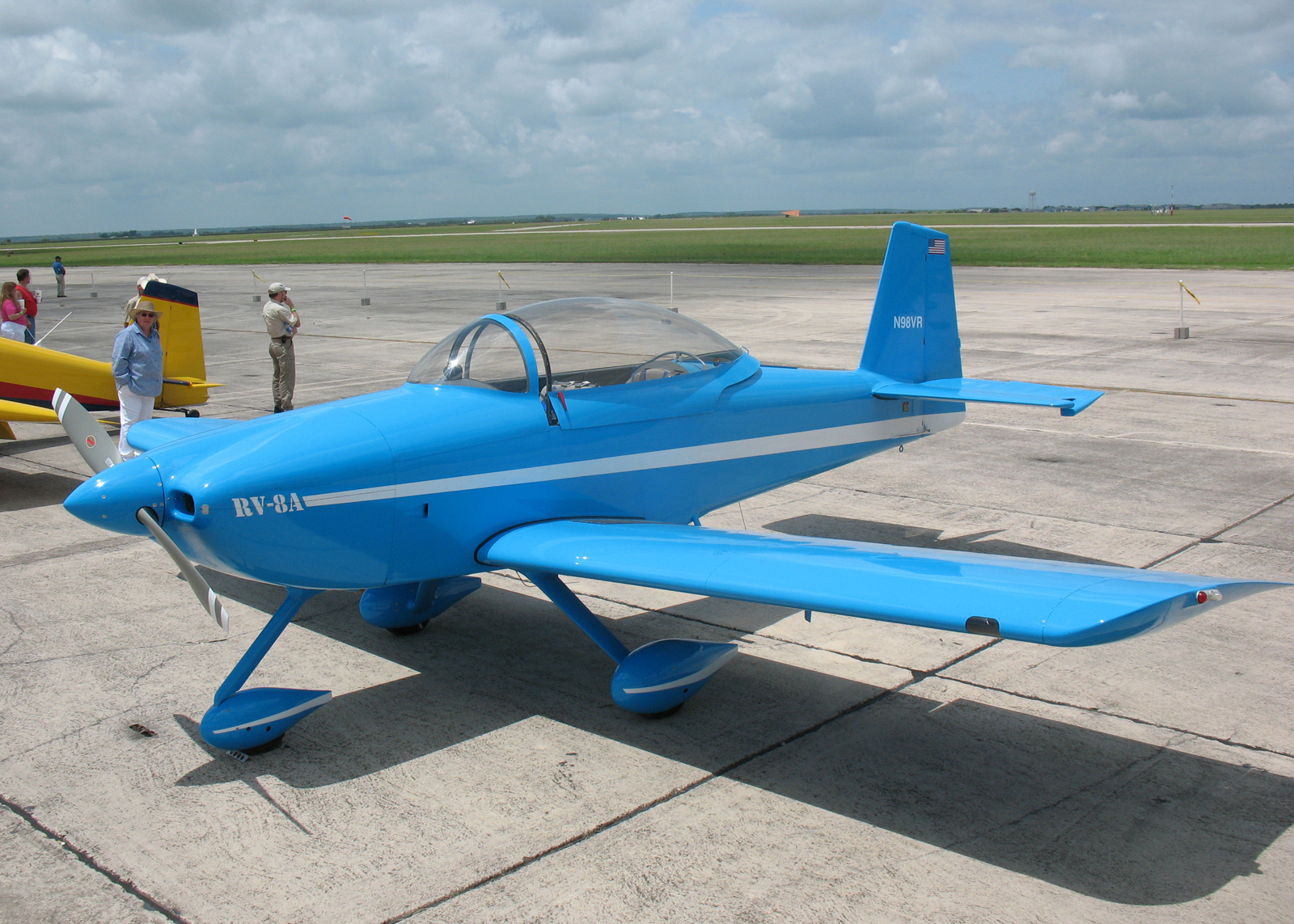 Van's Aircraft RV-8A (N98VR) at the 2007 South West Regional Fly In, Hondo, TX